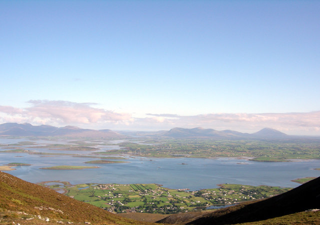 Murrisk and Clew Bay Murrisk and Clew Bay from near the first station on the path up Croagh Patrick